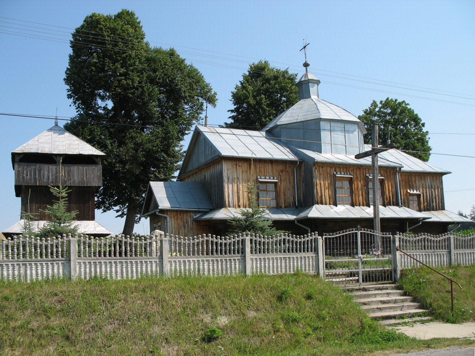 Former Greek Catholic church in Prusie, Poland (now Roman Catholic church)